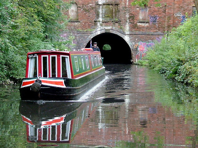 Narrowboat leaving the east portal of Brandwood Tunnel, Birmingham This is the Stratford-upon-Avon Canal at the east portal of the 352 yard (322 metres) Brandwood Tunnel near King's Norton. The tunnel is wide enough for narrowboats travelling in opposite directions to pass each other. There is no towpath in the tunnel. The horses used to be detached and led up a track to the right, and across the hill, and crews hauled the boats along by means of an iron handrail on the side. Some of these rails are still in place. This part of the canal was built in the mid 1790s, though financial problems (what's new?) caused delays before the canal could open as far as Kingswood Junction (with the Grand Union) in 1803. The second stage (to Stratford) did not start until 1812, and was finished by 1815. Initial plans for a wide canal (the reason for the wide bridges and tunnels) were abandoned at an early stage.